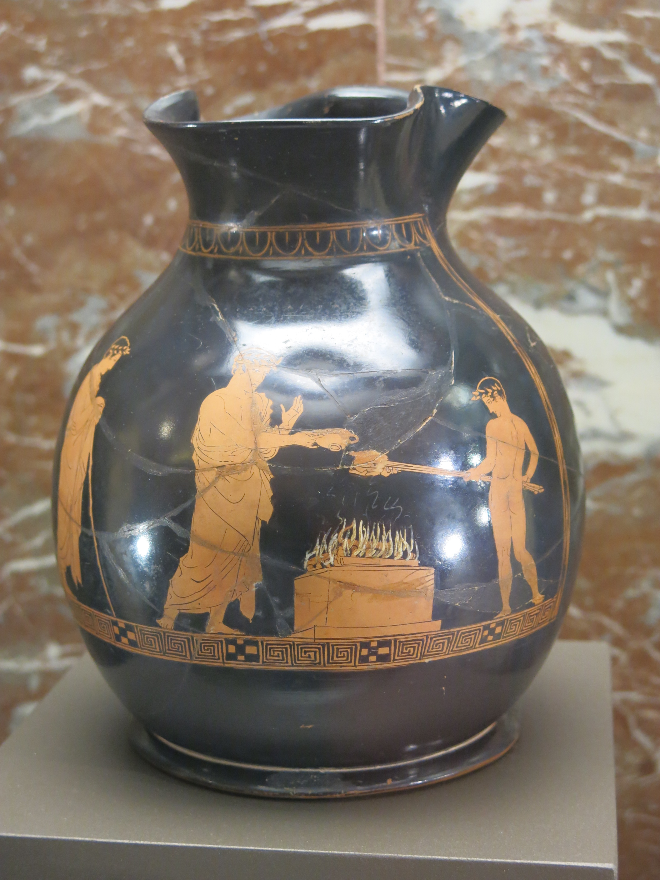 Attique Oenochoe with red figurs, with a scene of sacrifice. An Oenochoe (=pouring wine) was a distinctive type of Greek pottery vessel for pouring wine. Clay, Athens. Circa 430 - 425 BC. Purchase 1875. Louvre museum (Paris, France).